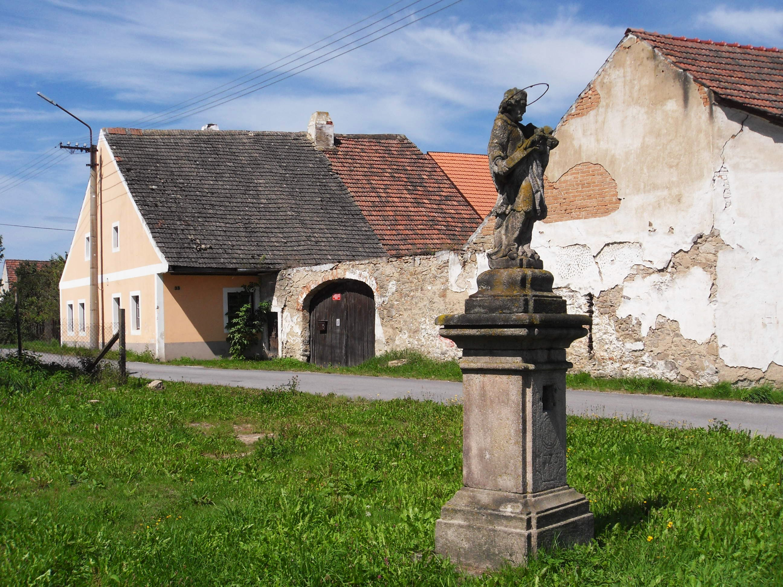 Former Čížkrajice fortress and statue of John of Nepomuk, Čížkrajice, České Budějovice district, Czech Republic